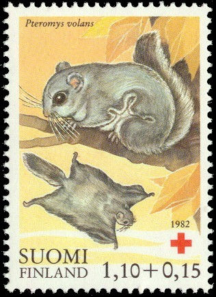 Postage stamp depicting Siberian Flying Squirrels (Pteromys volans) living in Finland